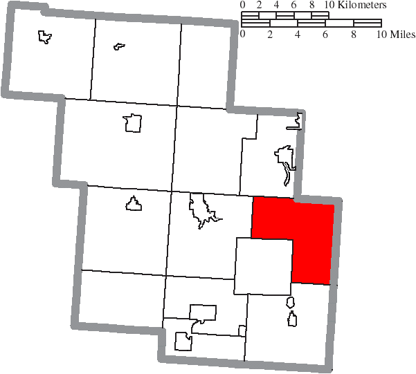 Map of the municipal and township boundaries of Perry County, Ohio, United States, as of the 2000 census, with the location of Bearfield Township highlighted. Township borders are shown only in unincorporated areas in order to differentiate incorporated and unincorporated areas more clearly.